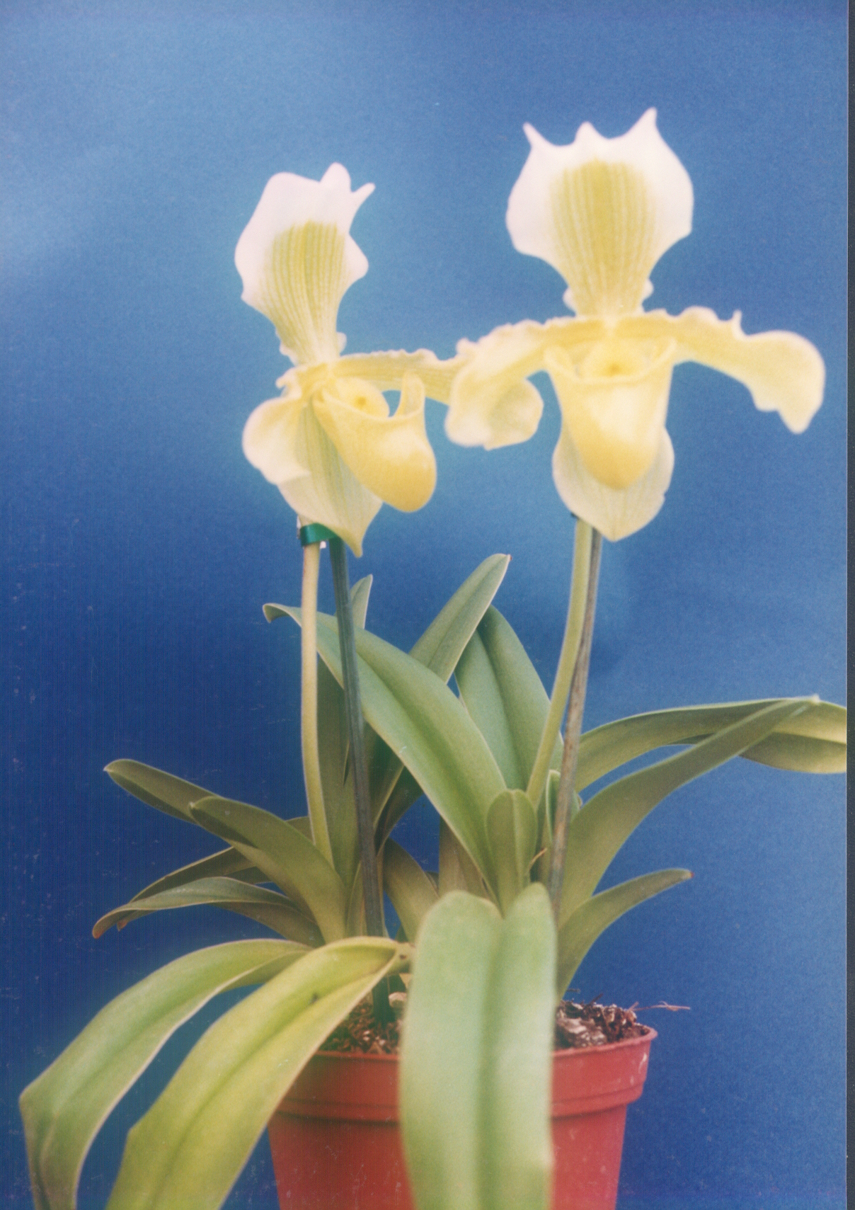 Paphiopedilum insigne sanderae